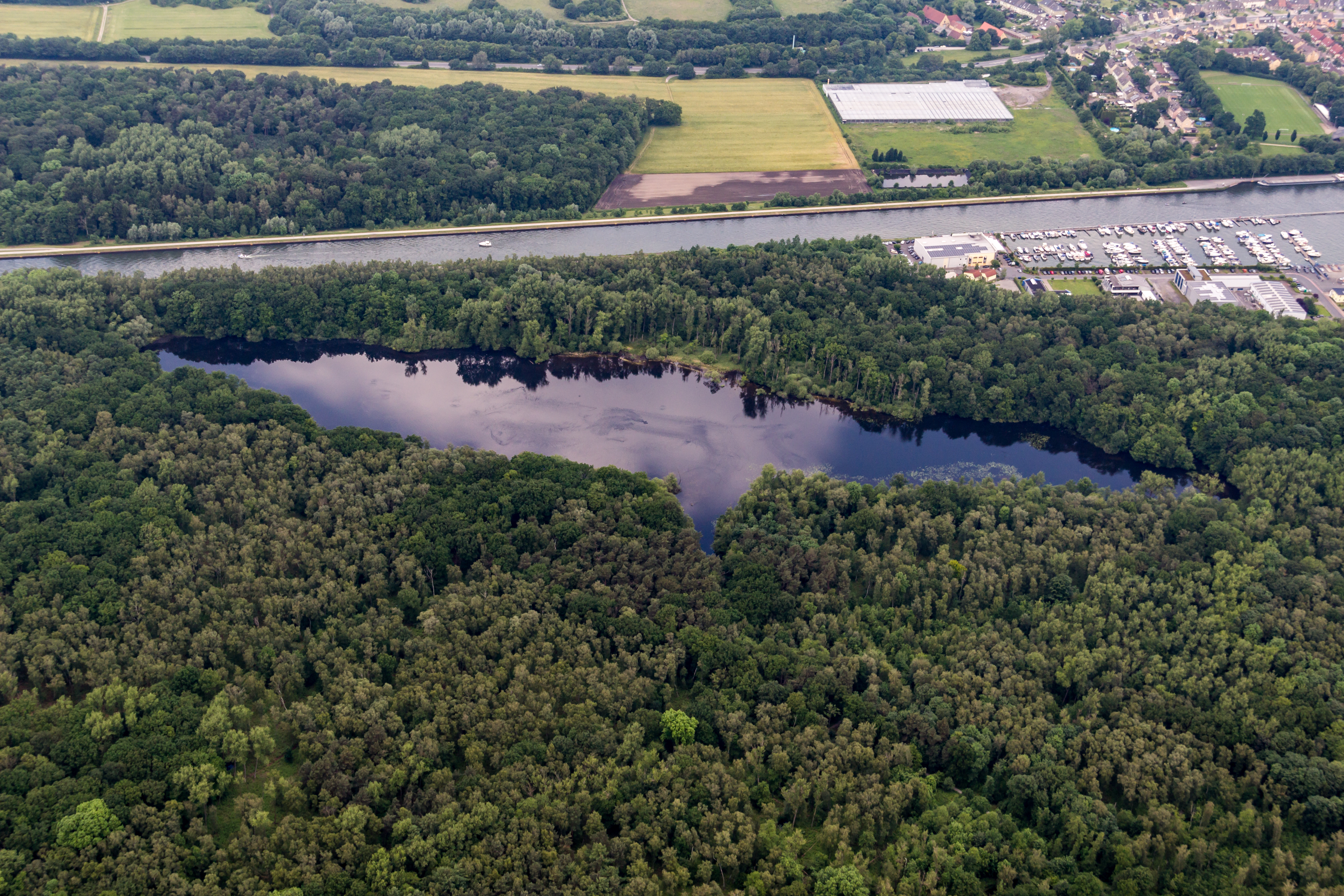 Beversee, Bergkamen, North Rhine-Westphalia, Germany